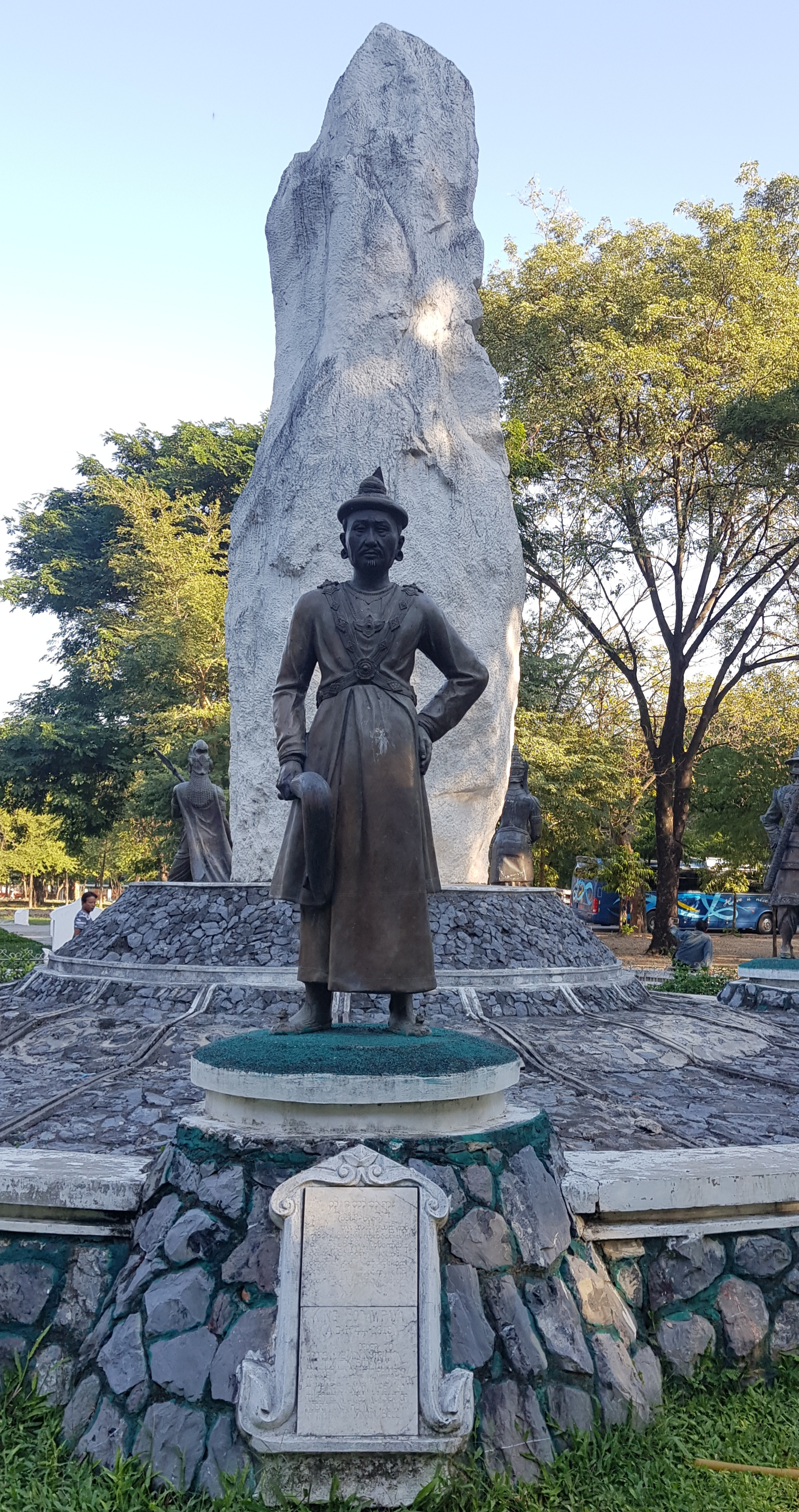 The statute of king Bodawpaya in Mandalay Palace